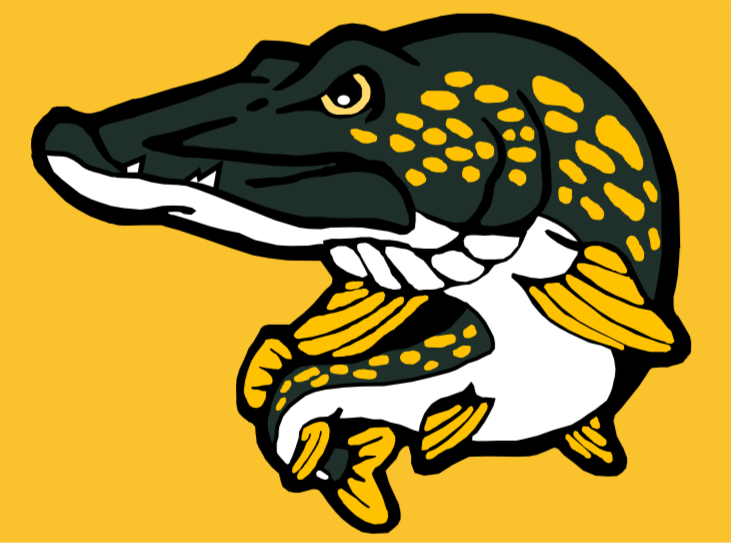 This is the official Logo of the Luzern Pikes.